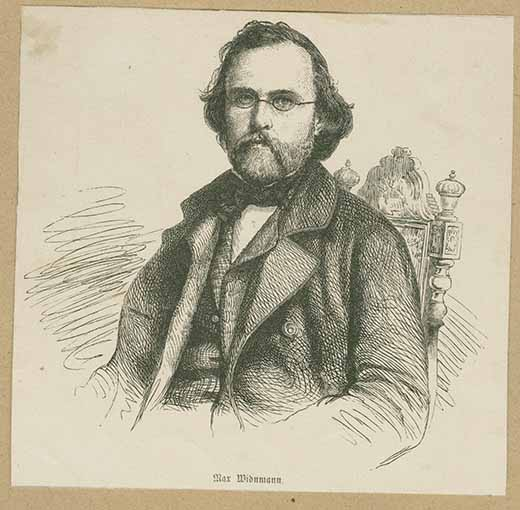 The bavarian painter and sculptor Max von Widnmann (1812-1895)